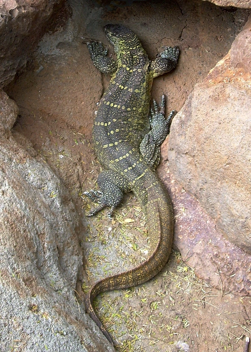 Nile monitor lizard from the Waikiki Zoo